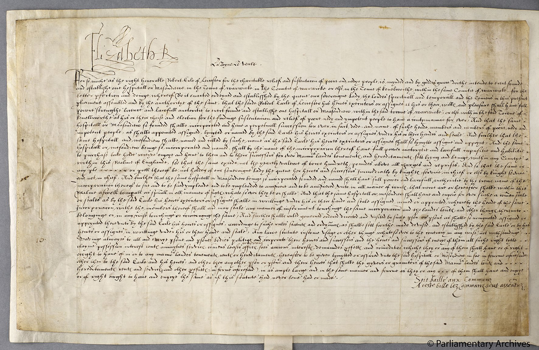 An Act of Parliament, to license the Earl of Leicester to found a hospital, in Warwick, England. See also [1].